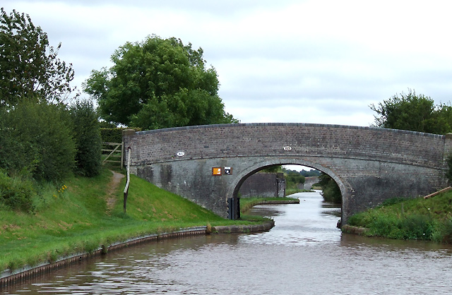 Austins Bridge (No 83) near Audlem, Cheshire